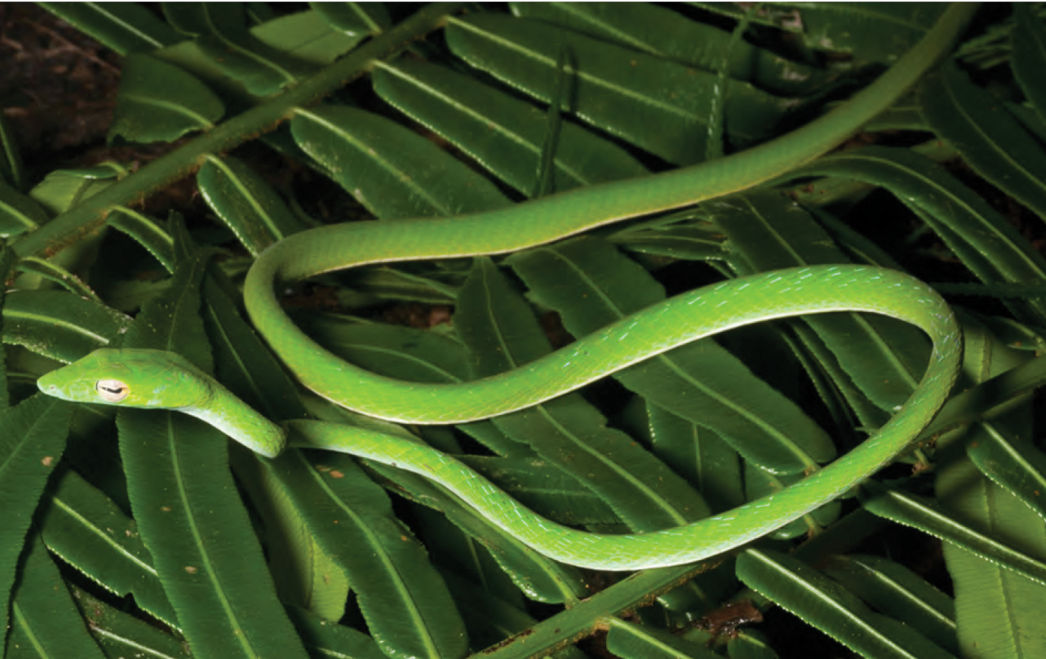 Ahaetulla prasina preocularis (KU 330037) green morph. Photo: RMB.